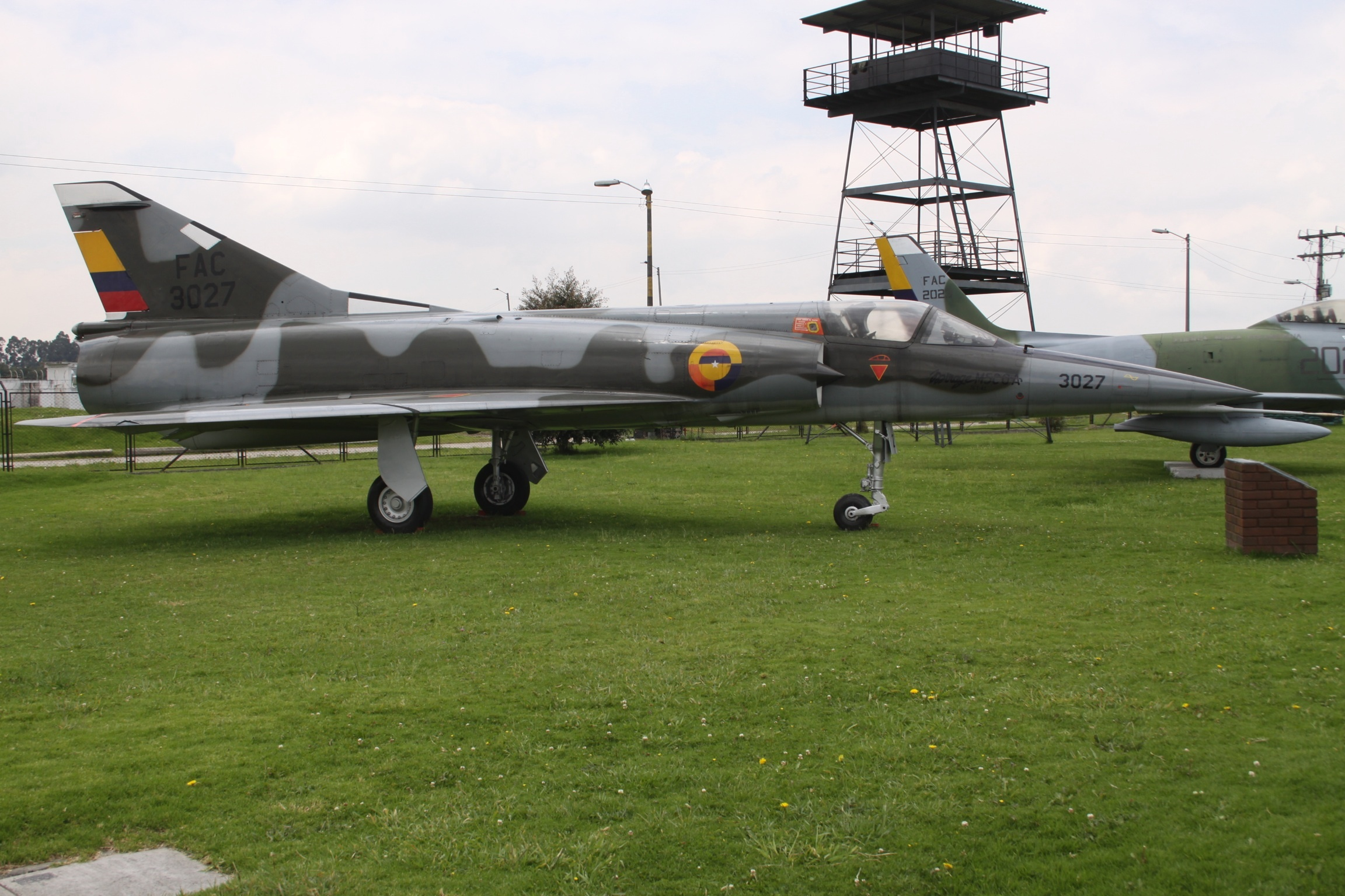 At Bogota El Dorado International